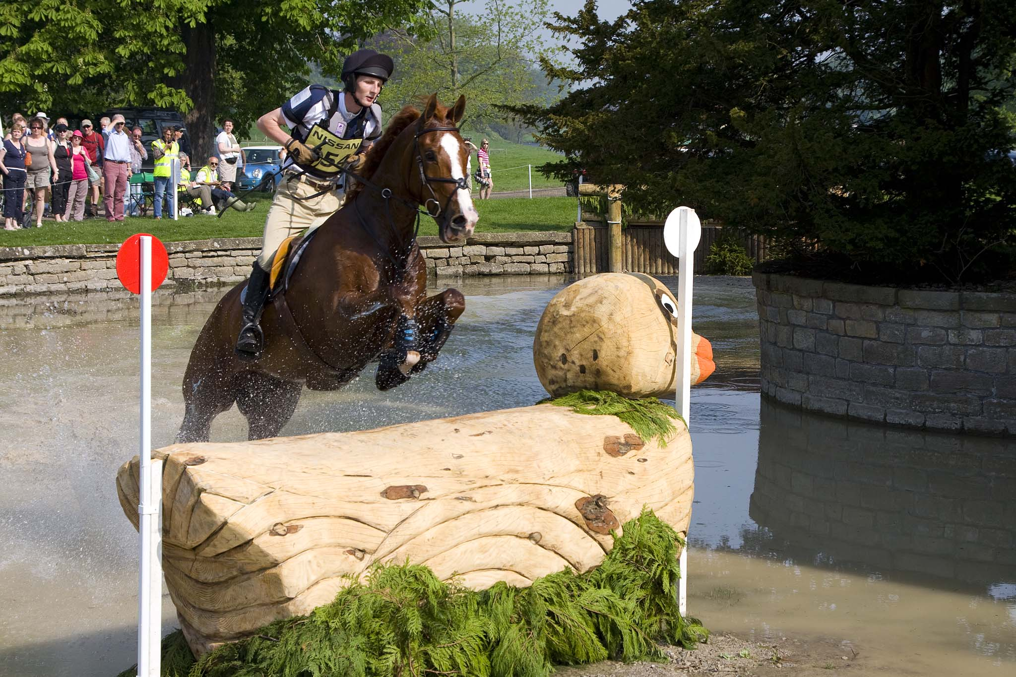 Chatsworth International Horse Trials 2008